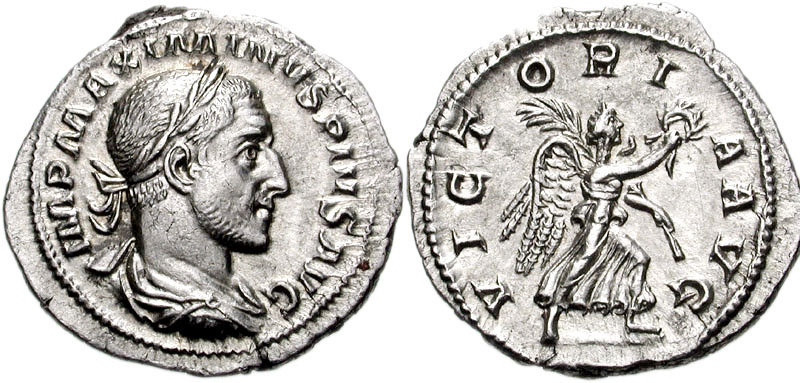 Maximinus I. AD 235-238. AR Denarius (20mm, 3.16 g, 12h). Rome mint. 1st emission, AD 235. IMP MAXIMINUS PIUS AUG, Laureate, draped, and cuirassed bust right / VICT-ORI-A AUG, Victory advancing right, holding wreath and palm. RIC IV 16; BMCRE 25-6 var. (legend breaks); RSC 99.